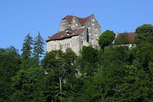 Castle Wildegg near Möriken-Wildegg (canton of Aargau)